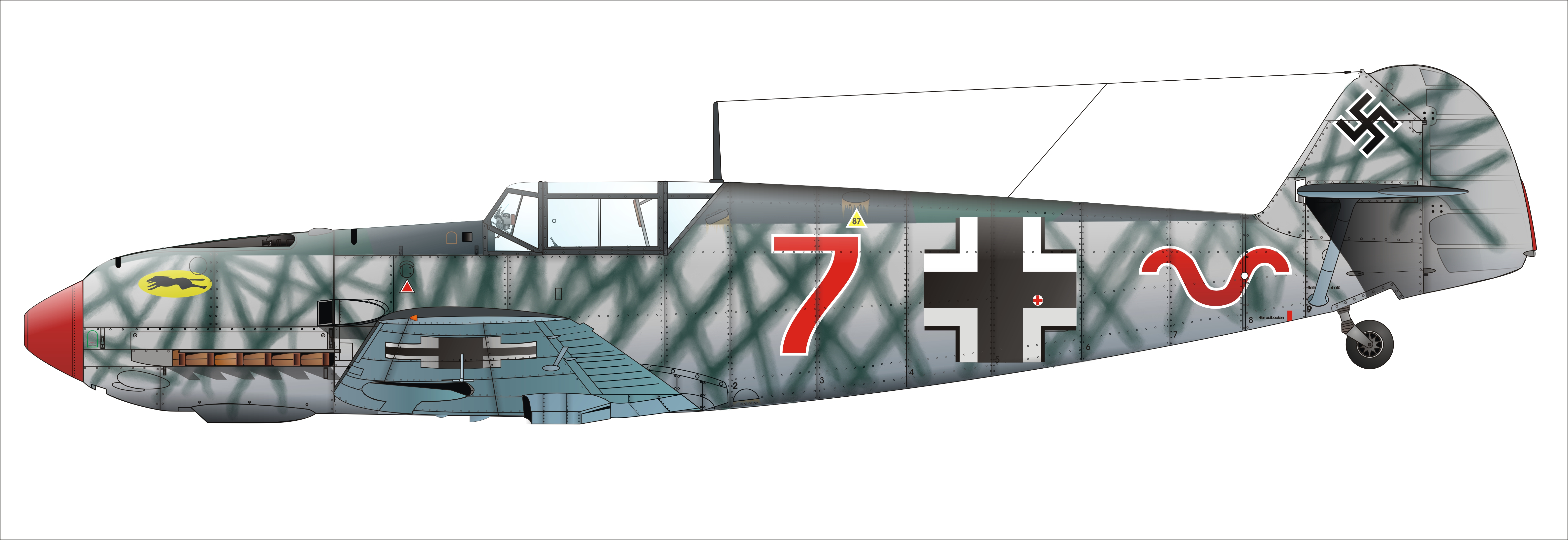 Bf 109 E-1